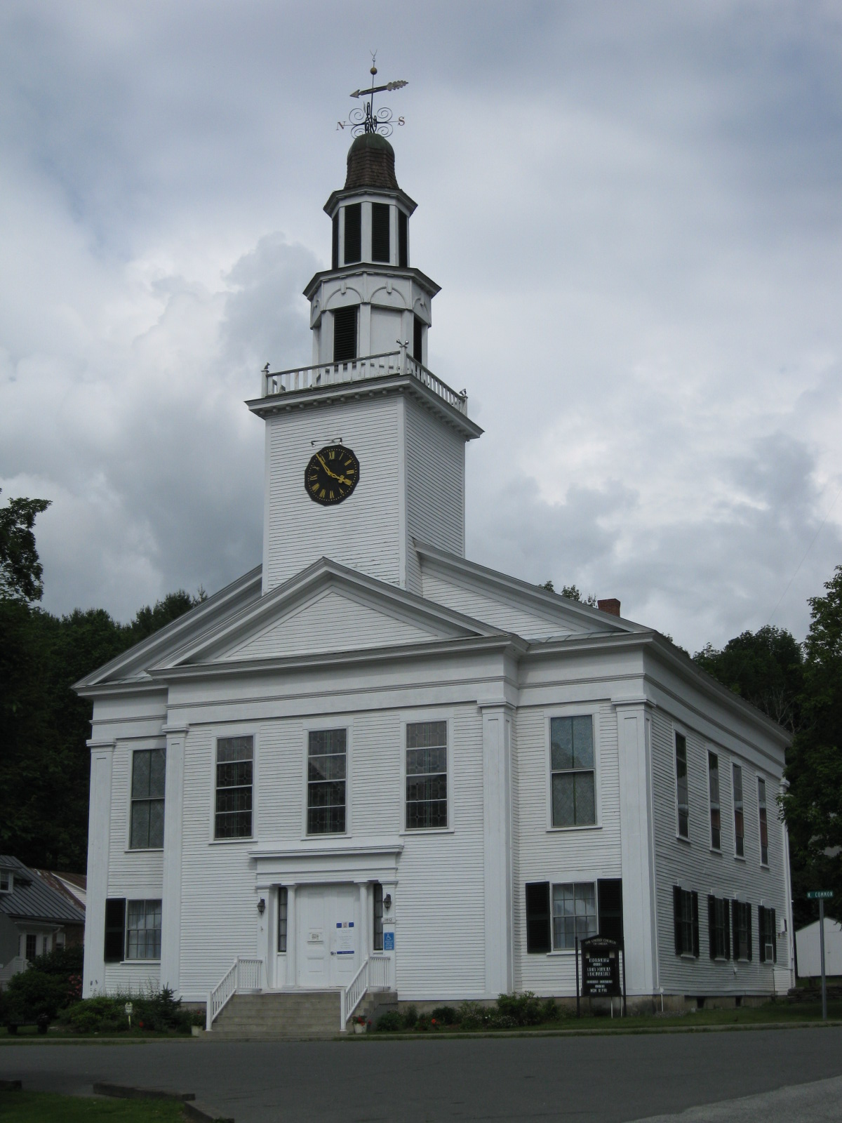 Front of the Congregational Church of Chelsea, located on the village green in central Chelsea, Vermont, United States. Built in 1811, it is listed on the National Register of Historic Places, and it is part of the Register-listed Chelsea Village Historic District.